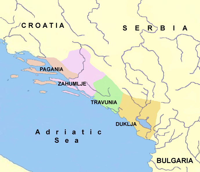 Historic map of medieval Dalmatian principalities (Pagania, Zachlumia, Travunia and Doclea) in the 9th century (self made by user:PANONIAN)